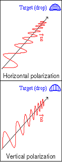 Principle of polarization use for radar. As water dropplets are usually oblate (flattened) as they become larger, the horizontally polarized wave will have a stronger return than the vetical one. Hail on the other hand has no preferred axis. Comparing the V and H returns will thus give information on the shape of the weather echos and on its type when combined with other data like reflectivity.